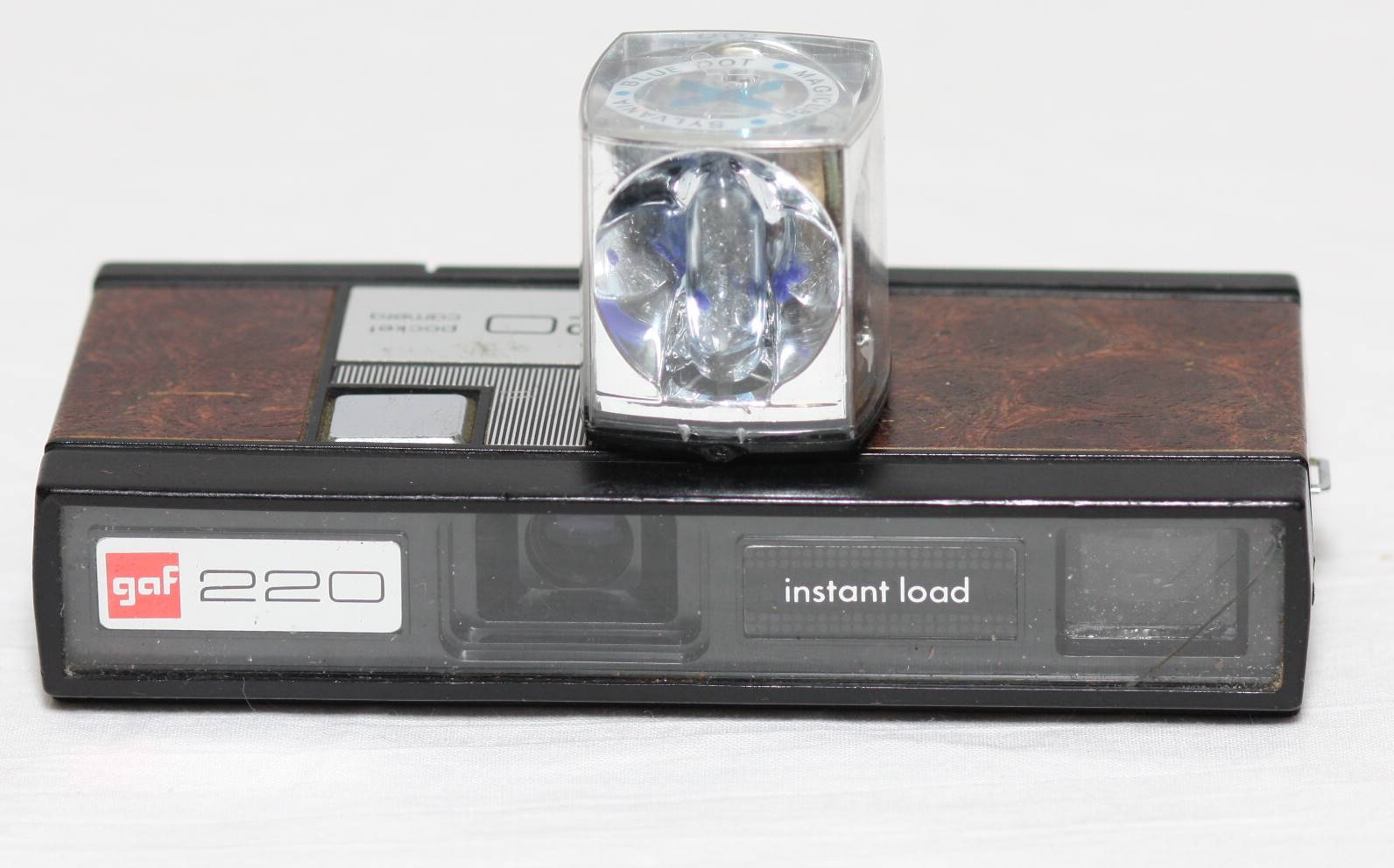 One of the things that started my camera collecting was looking for some of the cameras that I owned/used as a youth. A GAF 220 like this one was a gift for my 11th birthday. I don't recall what happened to it (lost or broken) as it was replaced a year or two later with a Kodak X-15. The picture quality today is every bit as "good" as I remember it.